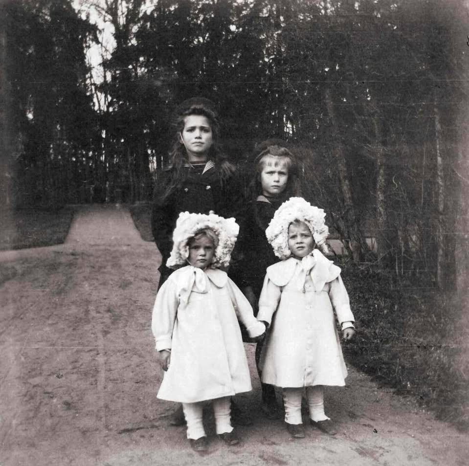 Grand Duchess Maria Nikolaevna and Grand Duchess Anastasia Nikolaevna with their greek cousins, Princess Margarita of Greece and Denmark and Princess Theodora of Greece and Denmark in 1908.